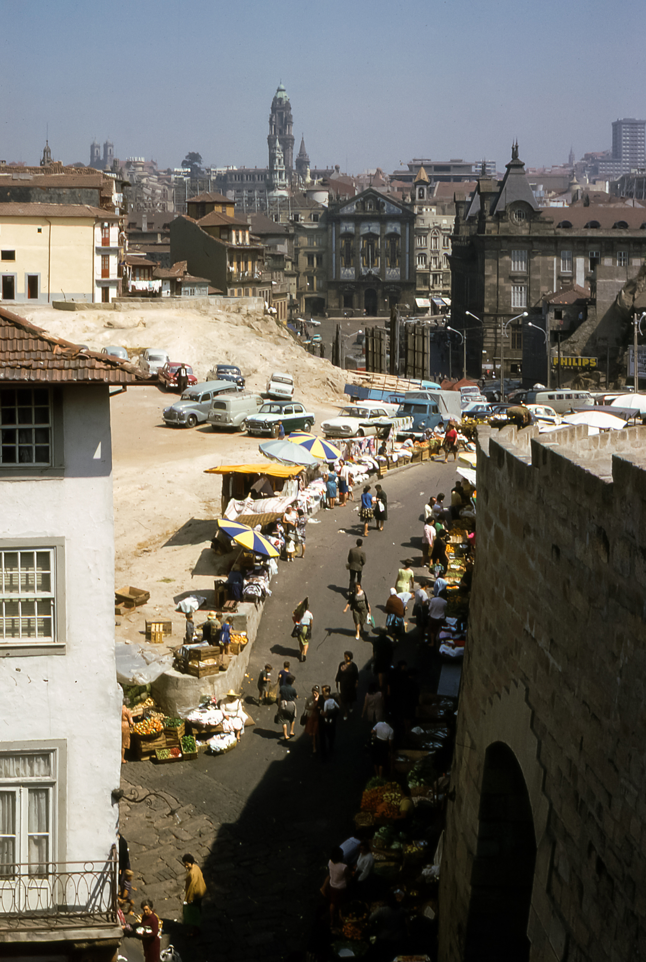 Market St Benedict in the neighbourhood Ribeira, seen from the forecourt of the Cathedral..